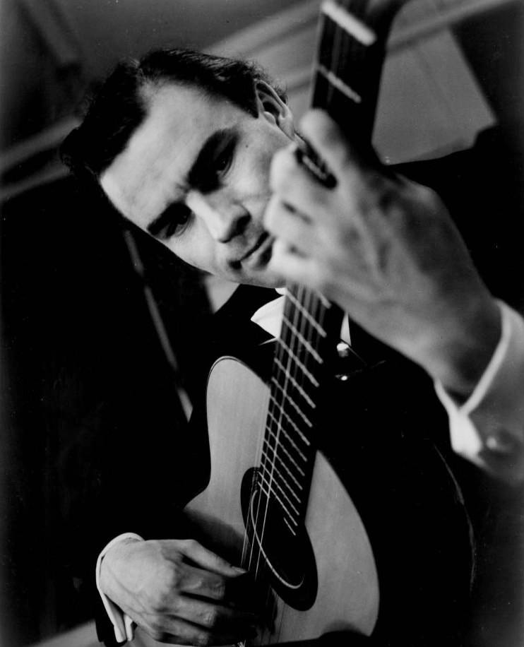 Photo of musician Julian Bream.